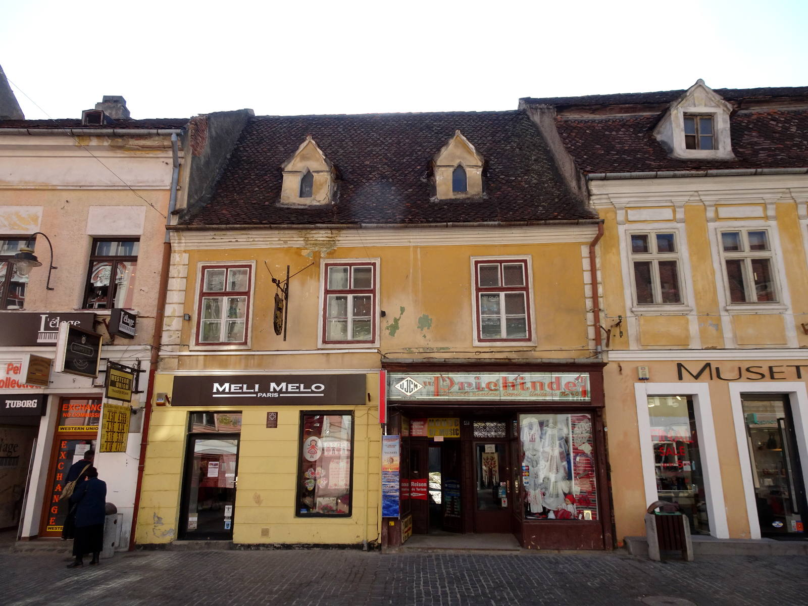 House on Republicii street, Brașov